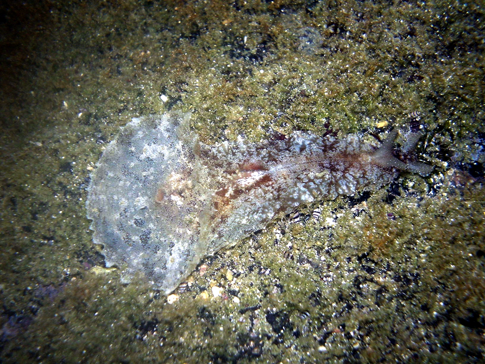 Sea Hare,Dolabella auricularia. The picture was taken at Big Island of Hawaii.